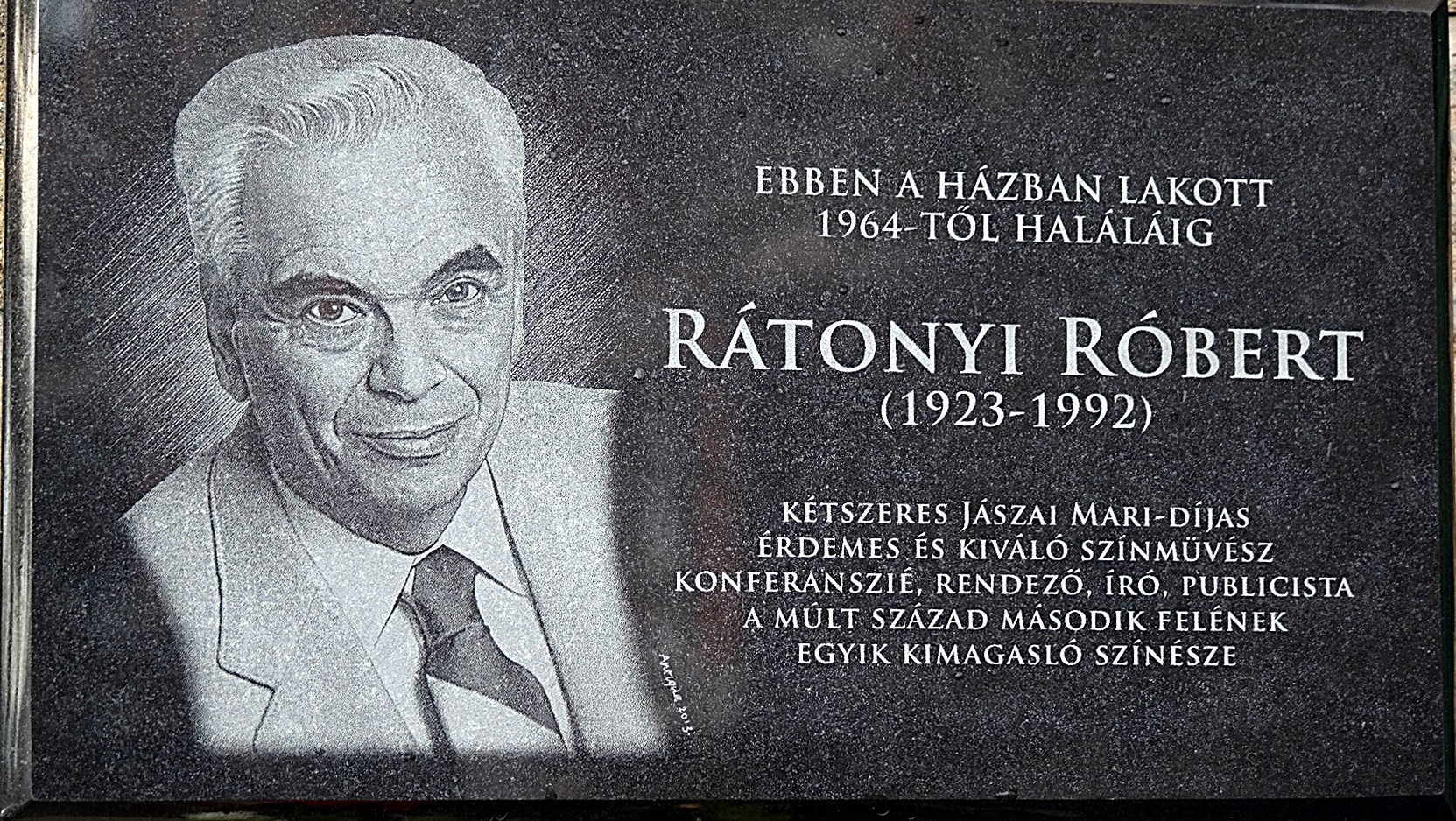 Róbert Rátonyi commemorative plaque in Budapest District II, Alsó Törökvészi Street No 9